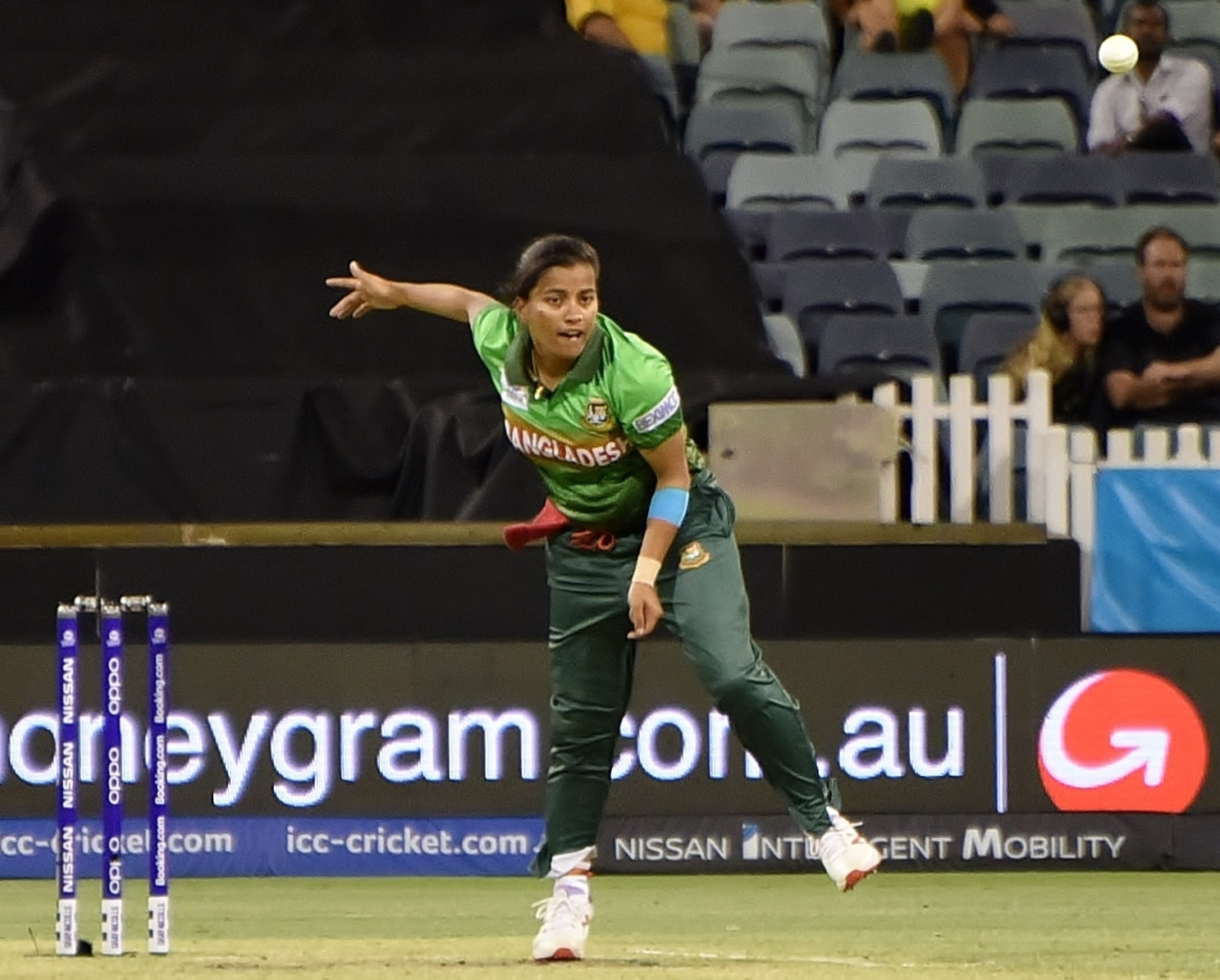 Nahida Akter bowling for Bangladesh against India during their 2020 ICC Women's T20 World Cup match at the WACA Ground in Perth, Australia